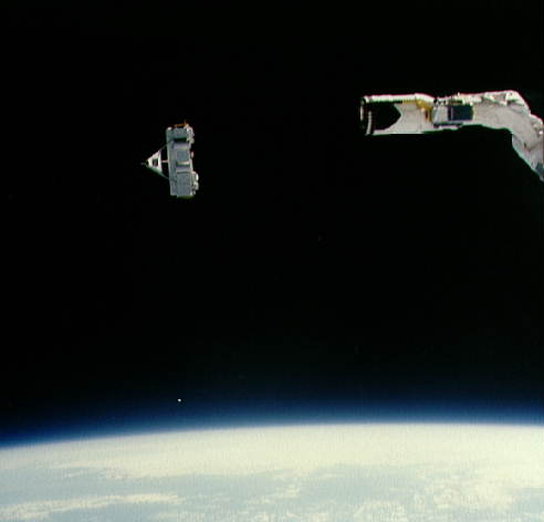 The Shuttle Pallet Satellite during STS-7